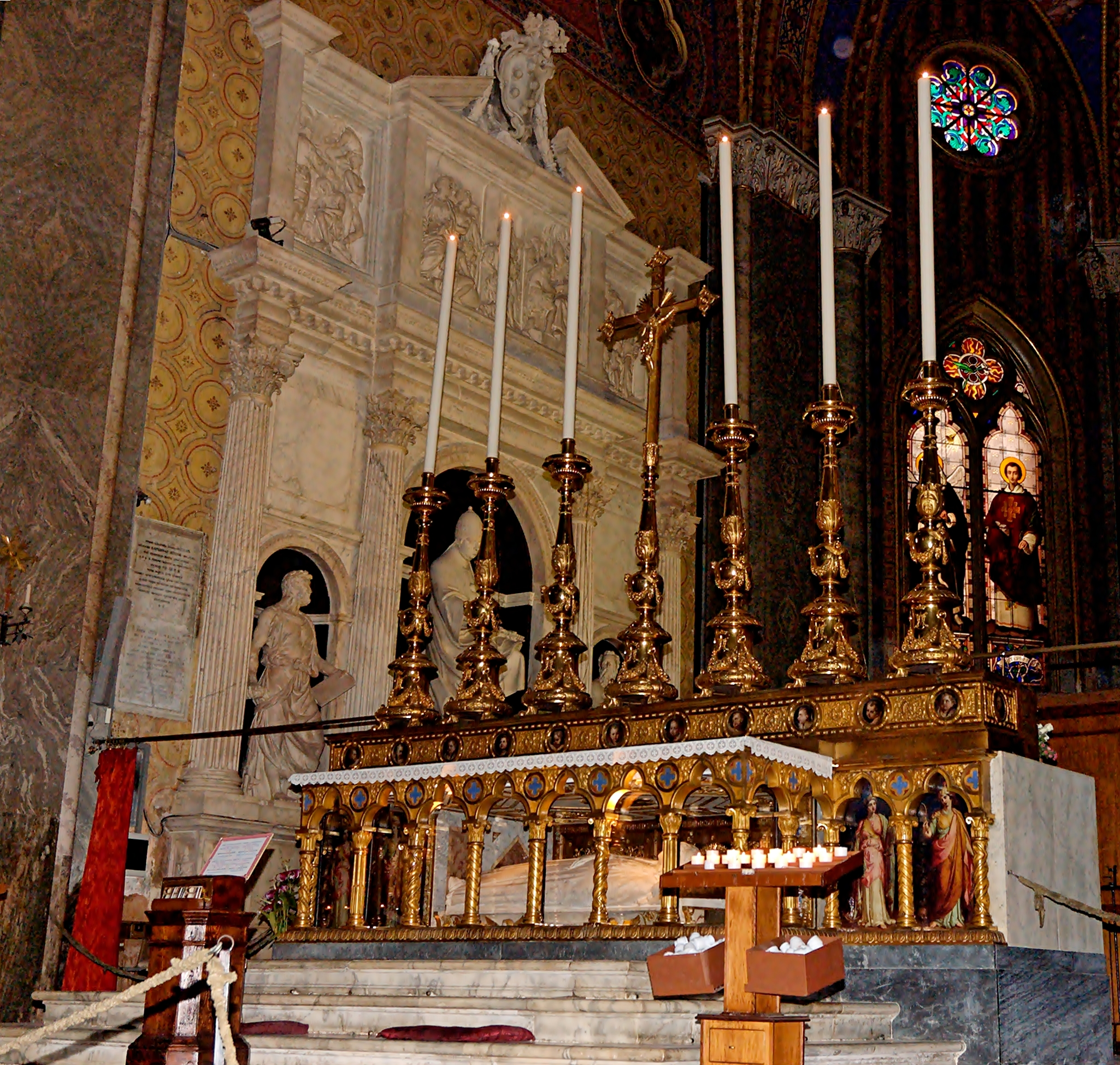 Sarcophagus of Saint Catherine of Siena, given to Isaia da Pisa (worked in years 1447-1464), beneath the High Altar of the church of Santa Maria sopra Minerva, Rome.